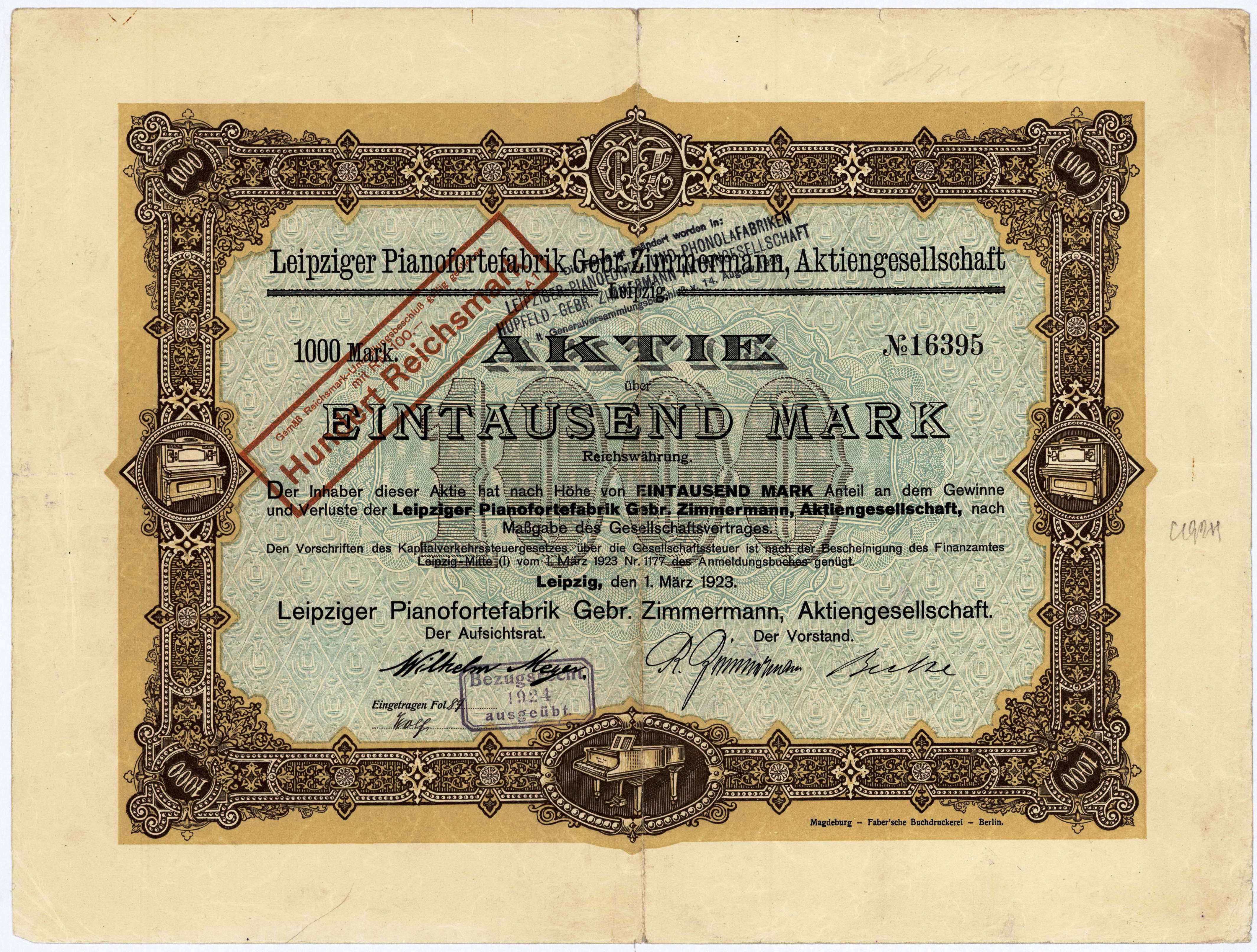 Share of the Leipziger Pianofortefabrik Gebr. Zimmermann AG, issued 1. March 1923